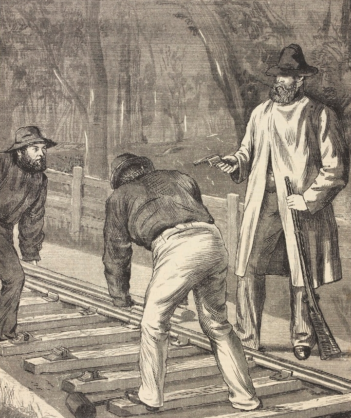 'The Kelly's at Glenrowan, preparing to "smash the train"': shows Ned Kelly forcing, at gunpoint, two platelayers to lift railway lines in an effort to derail the train carrying policemen. Wood engraving, printed in The Australian Pictorial Weekly.